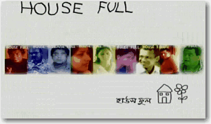 houseful bd